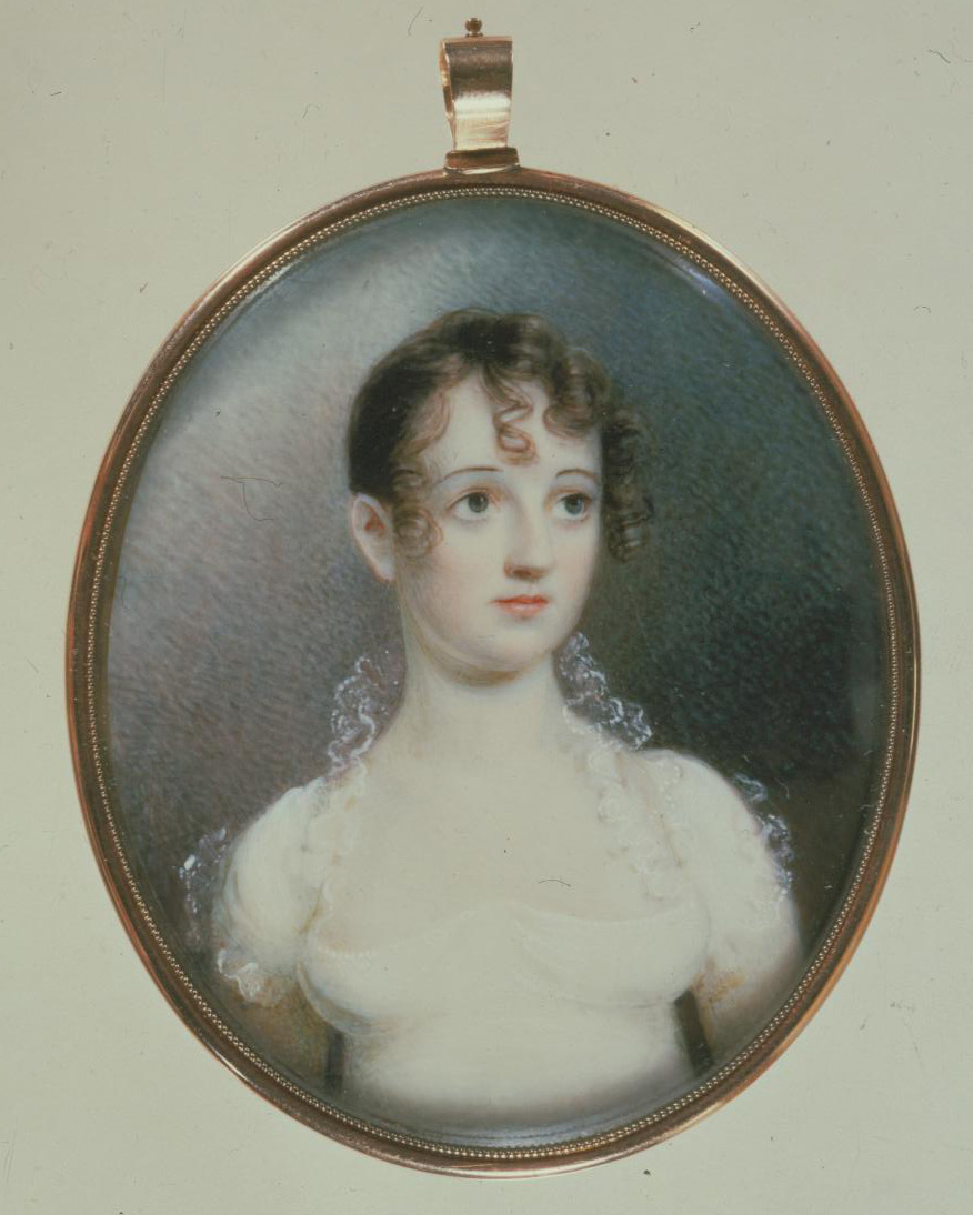 Elizabeth Canfield Tallmadge by Anson Dickinson (1779-1852)